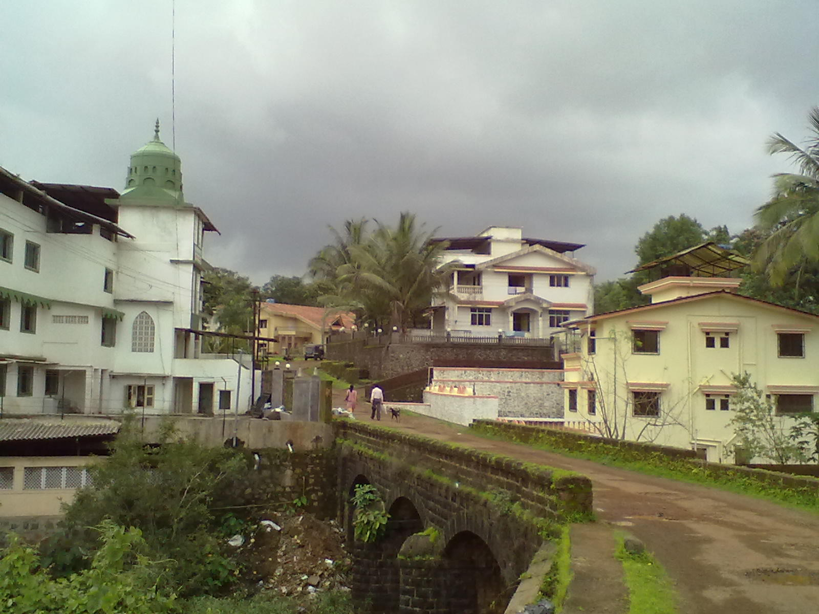 this file show township of furus